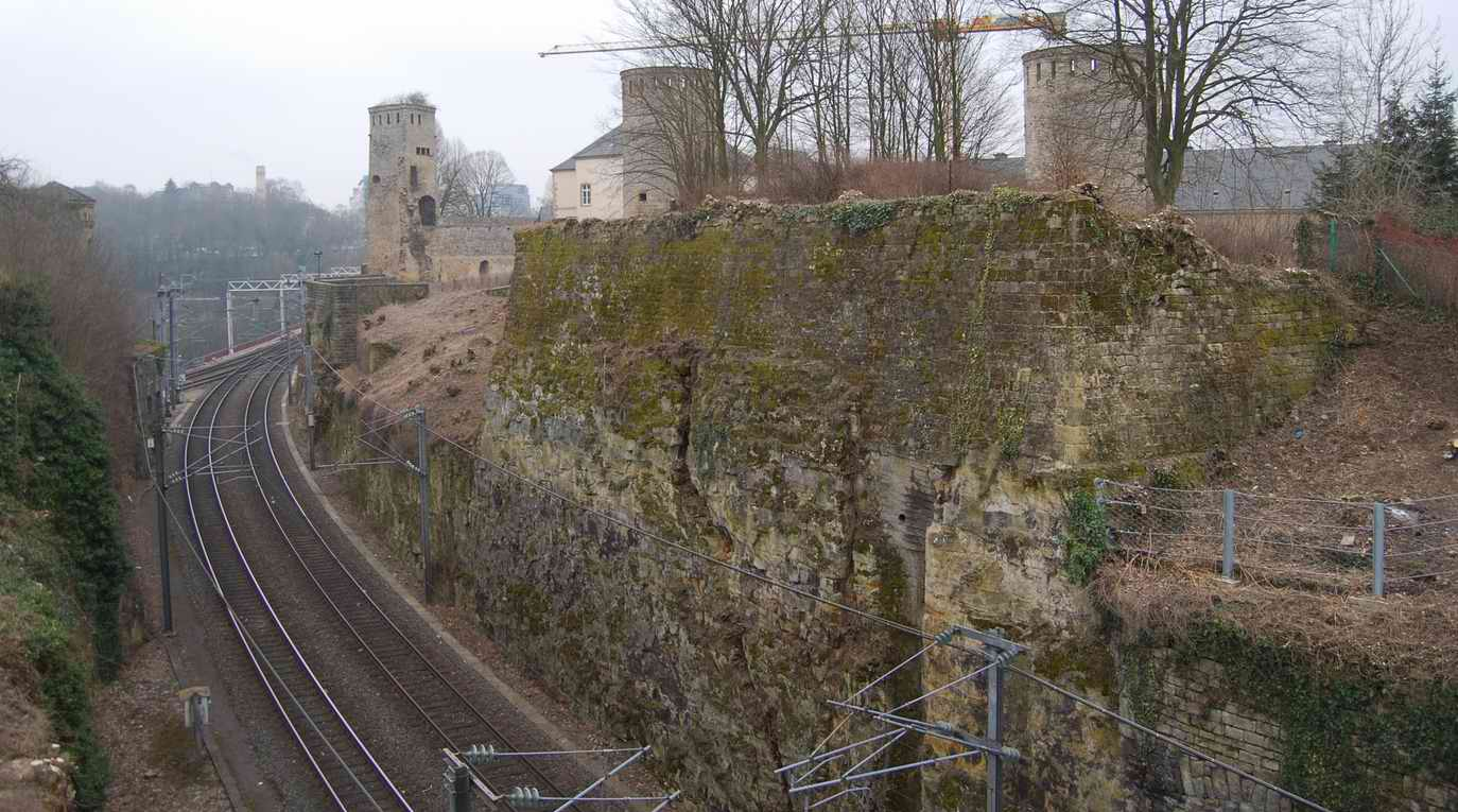 The Rham-Ravelin, part of the Rham-fortifications, constructed under Vauban. In the background, the towers of the medieval fortification wall.